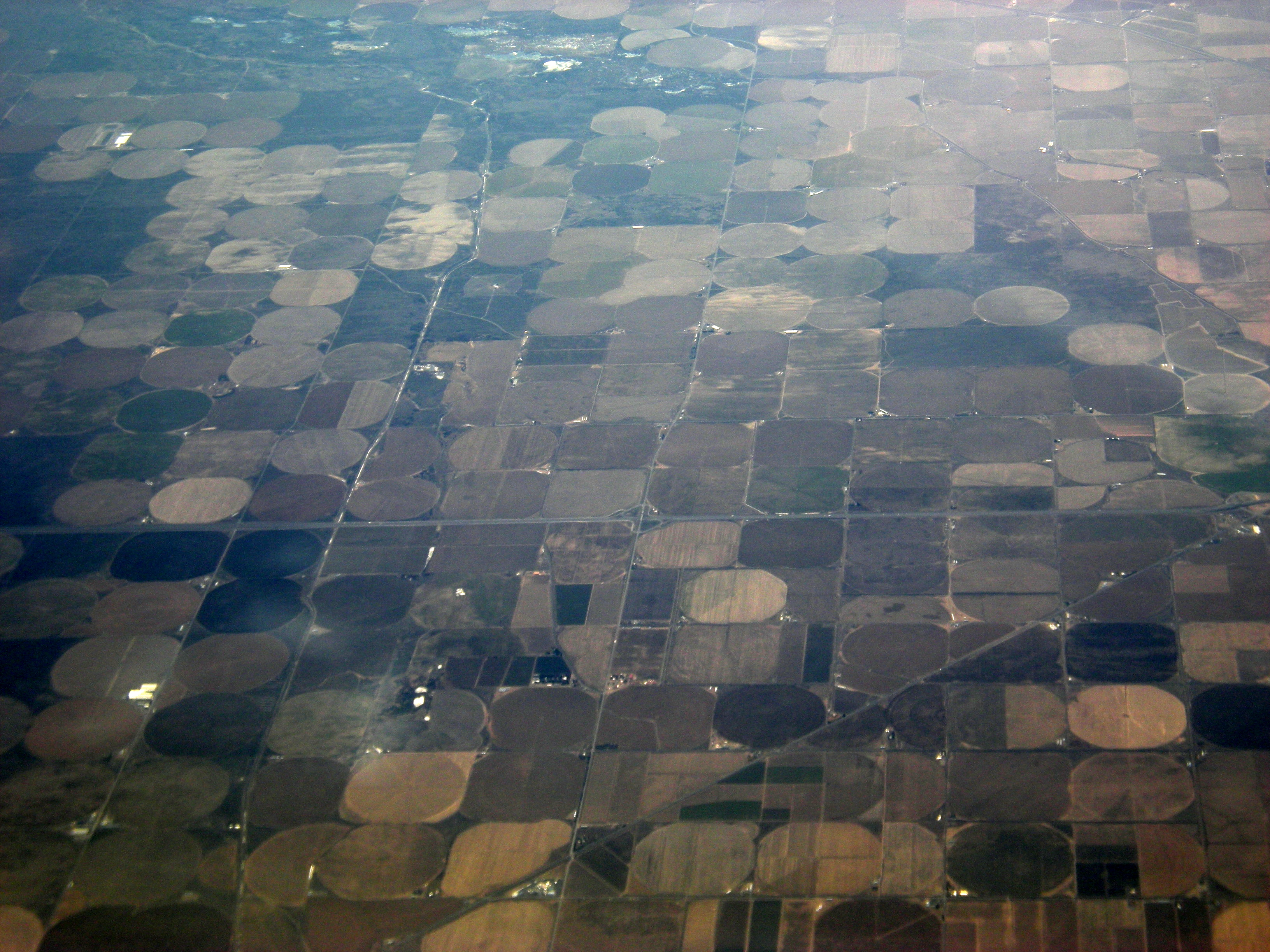 Aerial photo of farms in Grant County, Washington, USA. View is looking roughly south, just east of George, Washington. You can see the square patterns of land ownership and the circular patterns caused by irrigation sprinklers. The road running straight across is Interstate 90. Angling down in the foreground is Washington State Route 283; running roughly vertically at center left is Dodson Road.